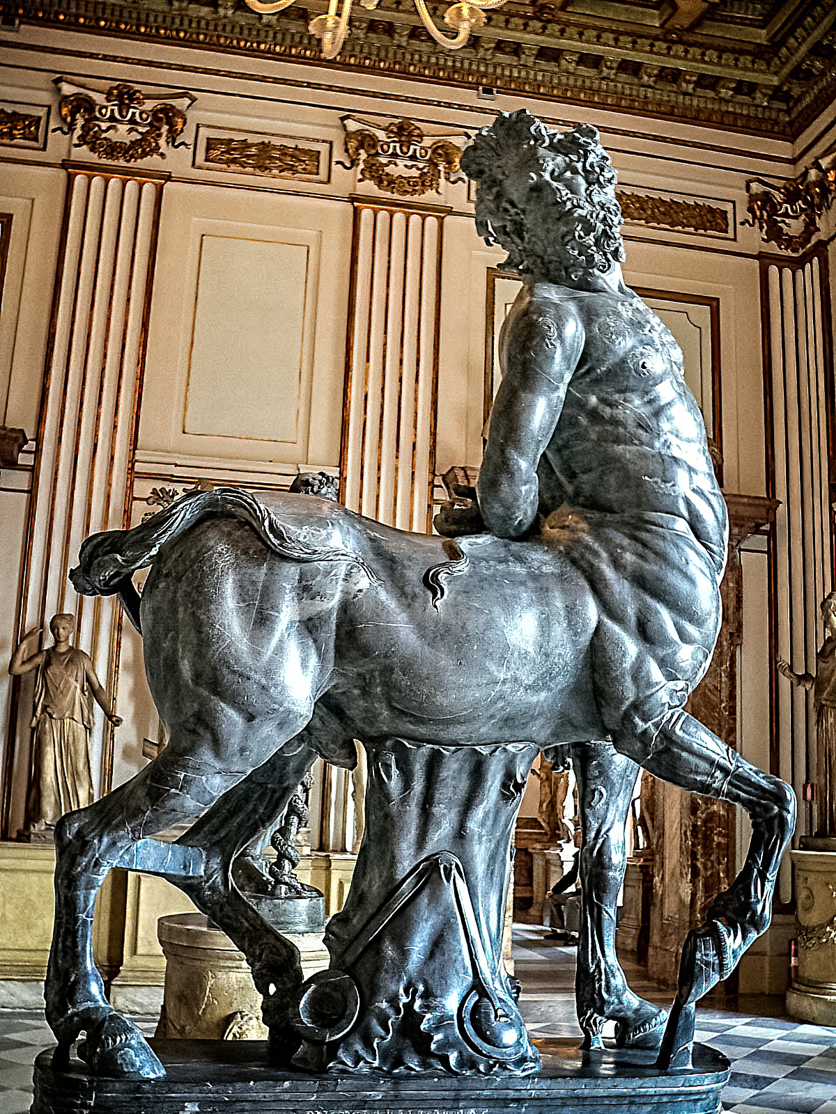 Old Centaur of Aristeas and Papias of Aphrodise tormented by Eros (missing). Gray-black marble, Roman copy from the Hadrian era (117-138 CE) from a Hellenistic original. Recovered from Hadrian's villa, near Tivoli, photographed at the Capitoline Museum in Rome, Italy.